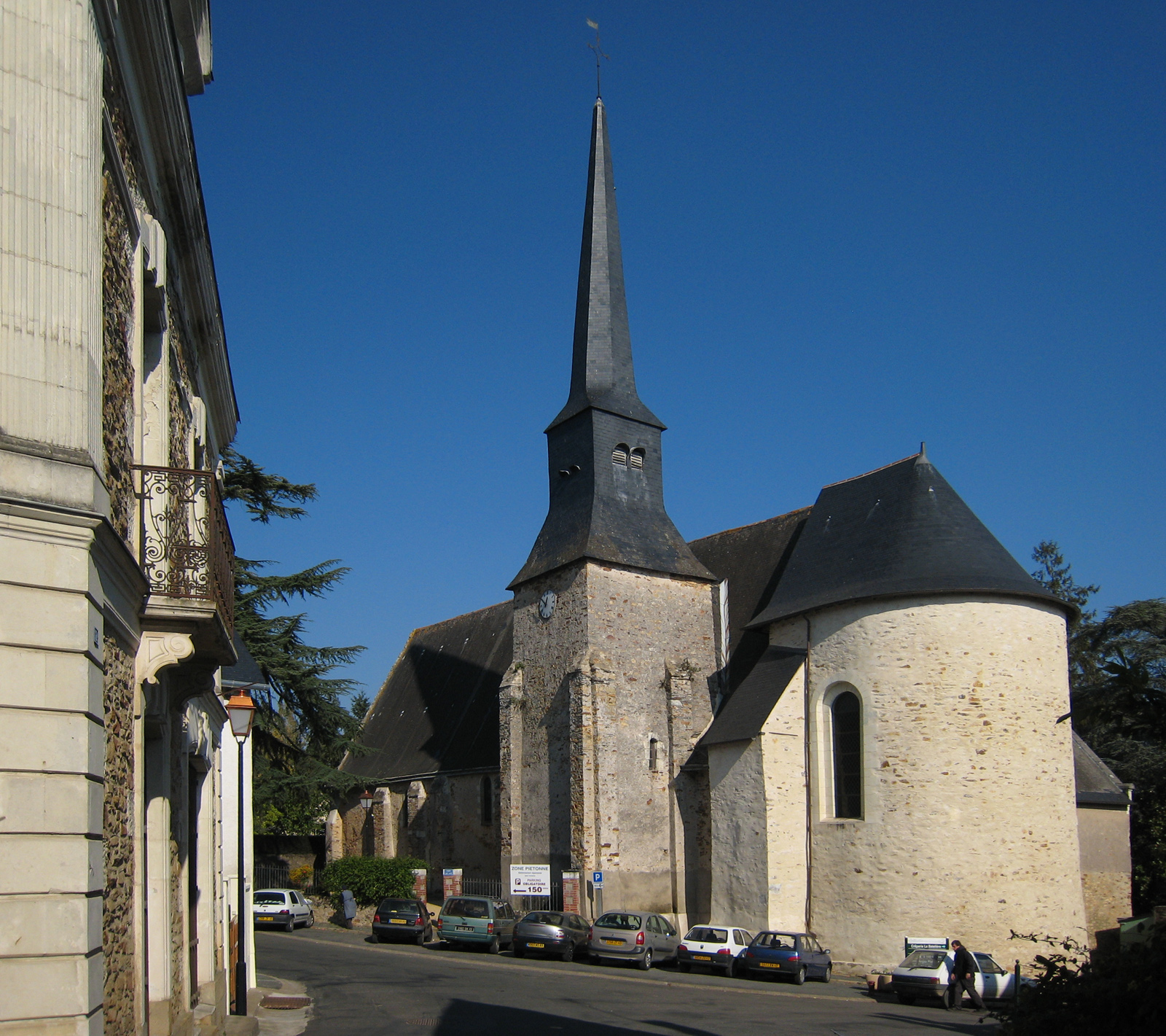 Grez-Neuville, community on the river Mayenne in the département of Maine-et-Loire in the Region Pays de la Loire in France; church of Saint-Martin_de-Vertou, located in Grez.